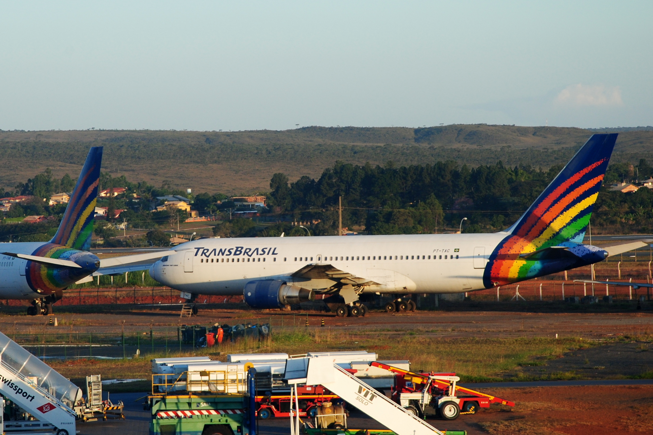 Transbrasil was a worldwide Brazilian airline. Its operation stopped in December 2001. The company was well-known for its colorful airplane which created a rainbow on the tail of aircraft. It was operated in Brasilia International Airport (BSB).